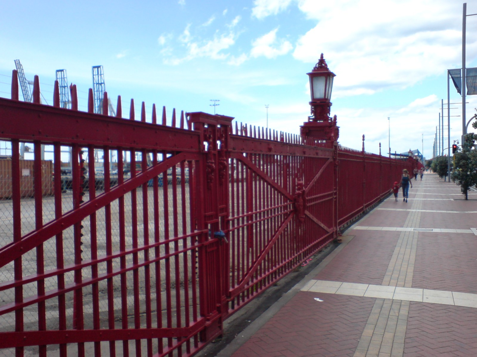 The southern boundary of the customs area of Port of Auckland, on Quay Street, Auckland City, New Zealand, looking northeast. Original harboour fennce in the foreground, with an electric fence faintly visible behind.